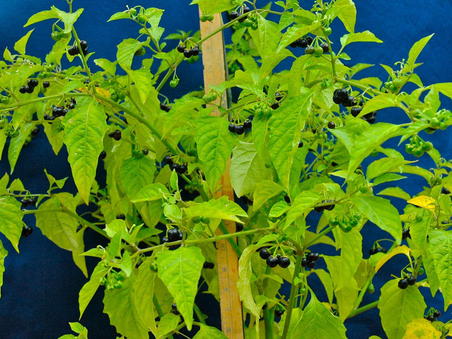 Solanum ptychanthum Dunal - West Indian nightshade, Eastern black nightshade